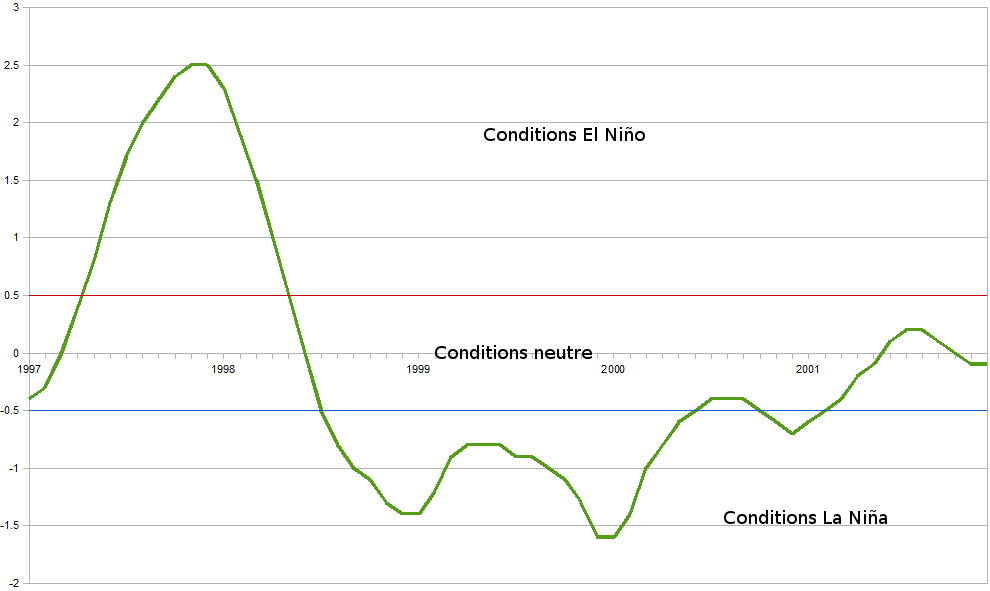 Oceanic Nino Index (ONI) graph from 01/01/1997 to 12/31/2001 (green line), with the La Nina conditions treshold (blue line) and El Nino condtions treshold (red line), original data from NOAA